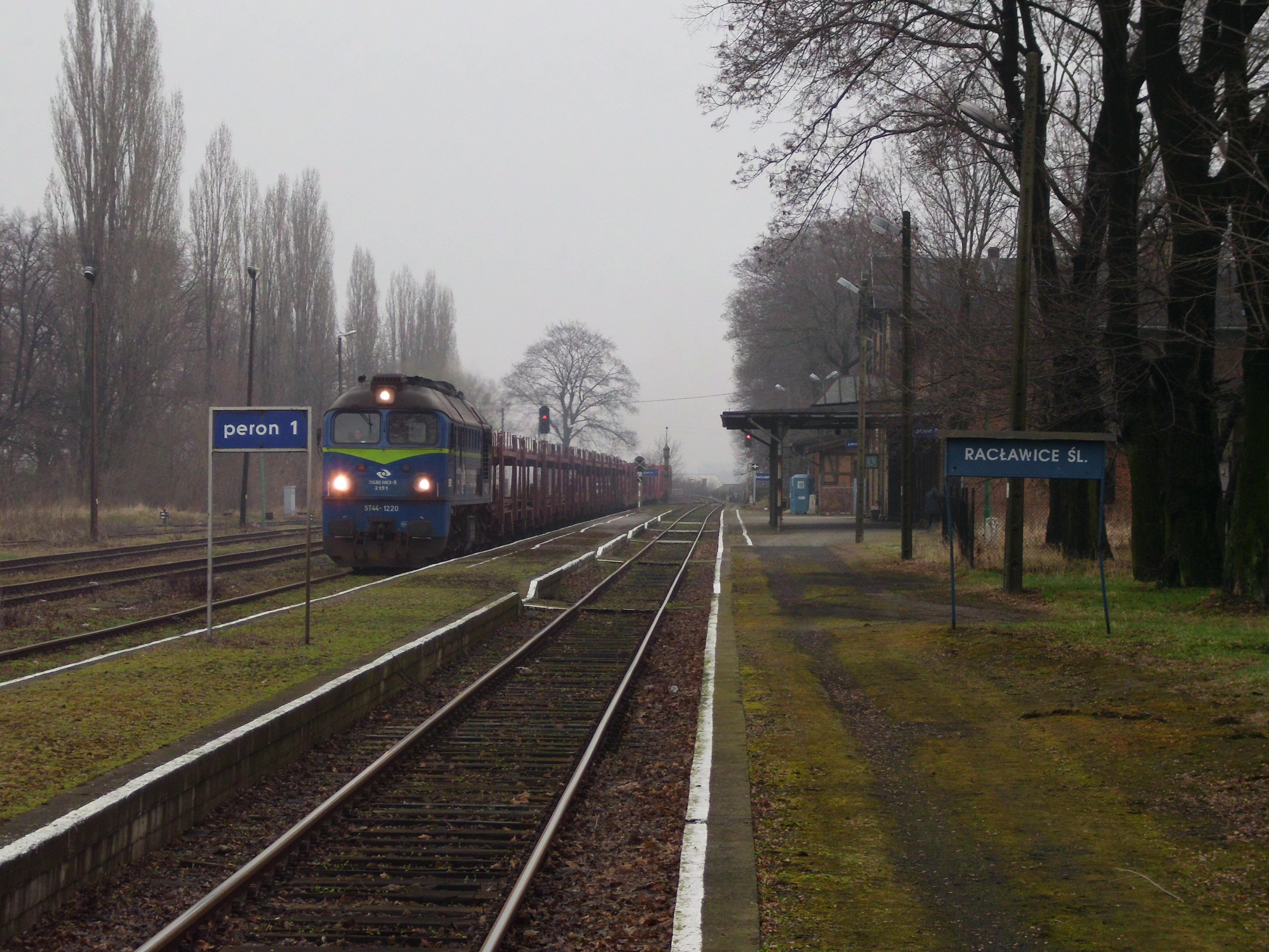 Train station in Racławice Śląskie on route 137, Poland